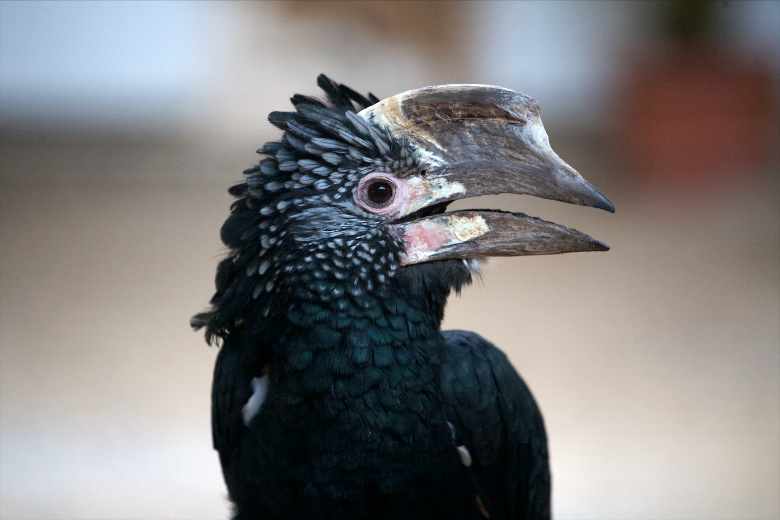 Silvery-cheeked hornbill